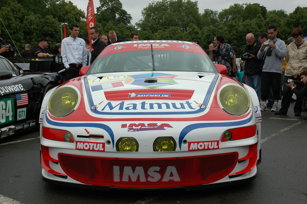 IMSA Performance Matmut's Porsche 997 GT3-RSR at scrutineering for the 2009 24 Hours of Le Mans.